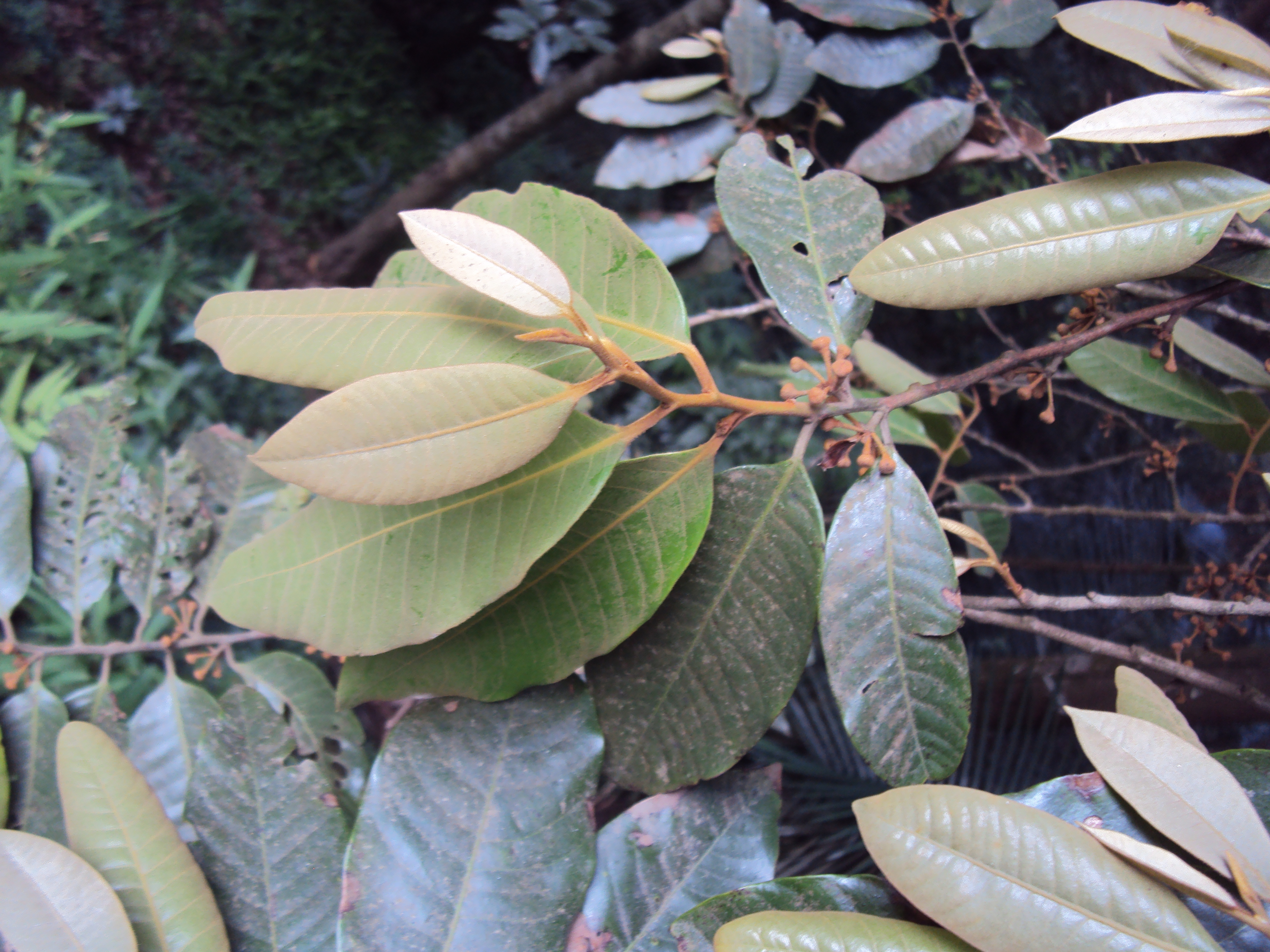 Knema attenuata